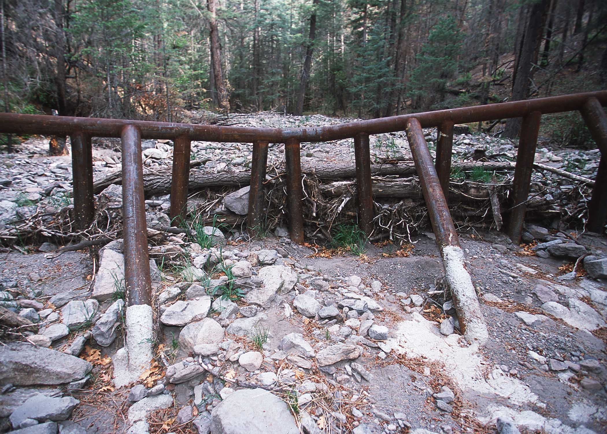 Debris catchers installed in numerous drainages after the Los Alamos fires. These were designed by NRCS to catch large debris such as large rocks and trees from water erosion after the fires. Los Alamos, New Mexico.